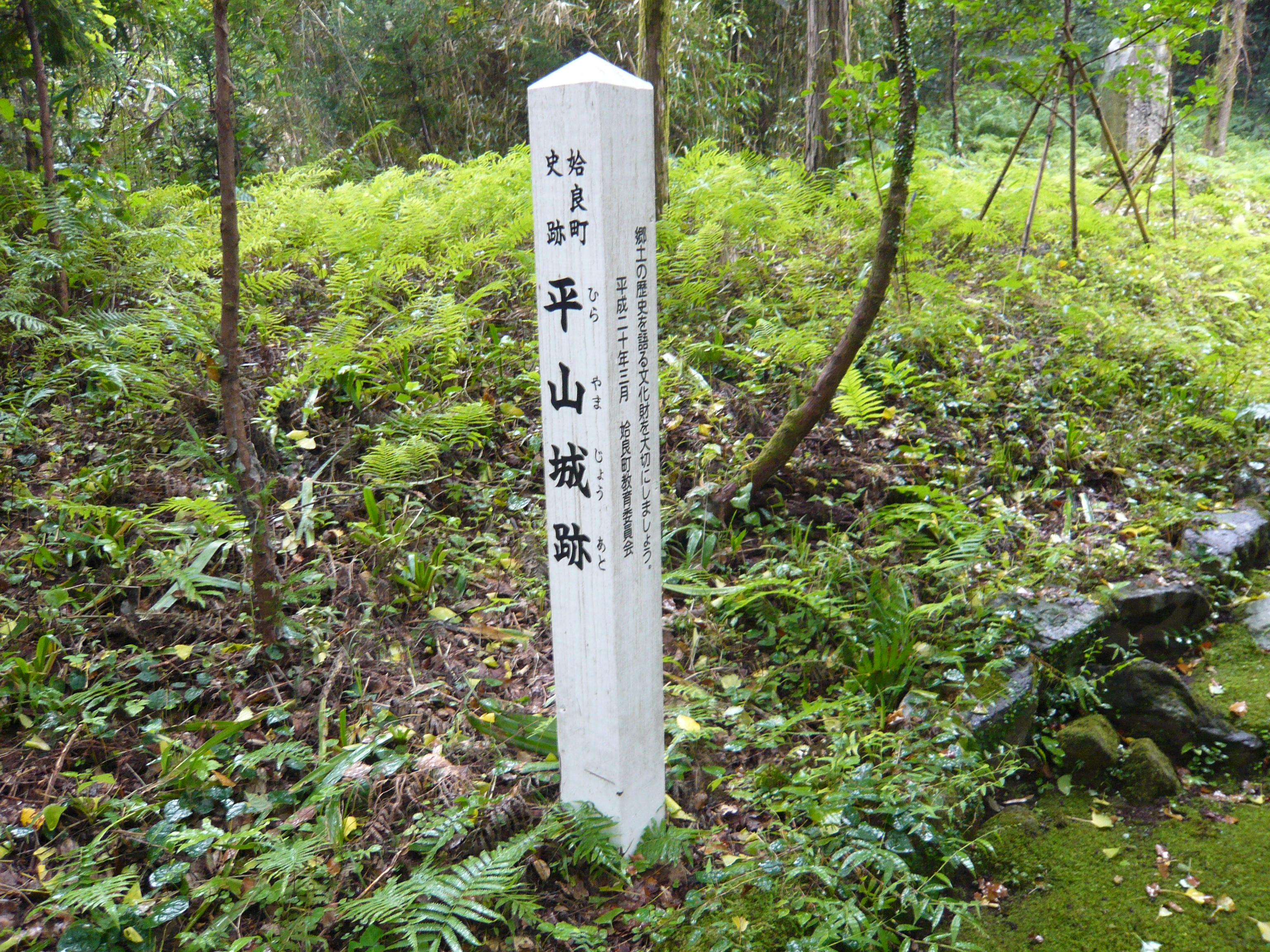 The Site for Hirayama Castle Kagoshima Japan